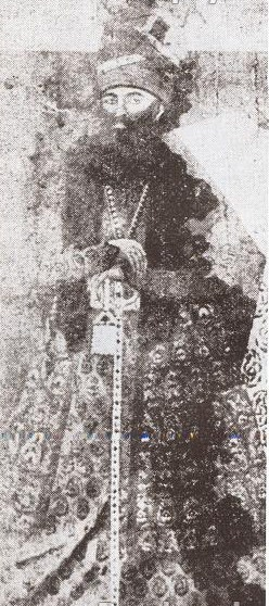 Portrait of Mirza Shafi Mazandarani, Grand Vizier of Persia (1801-1819)